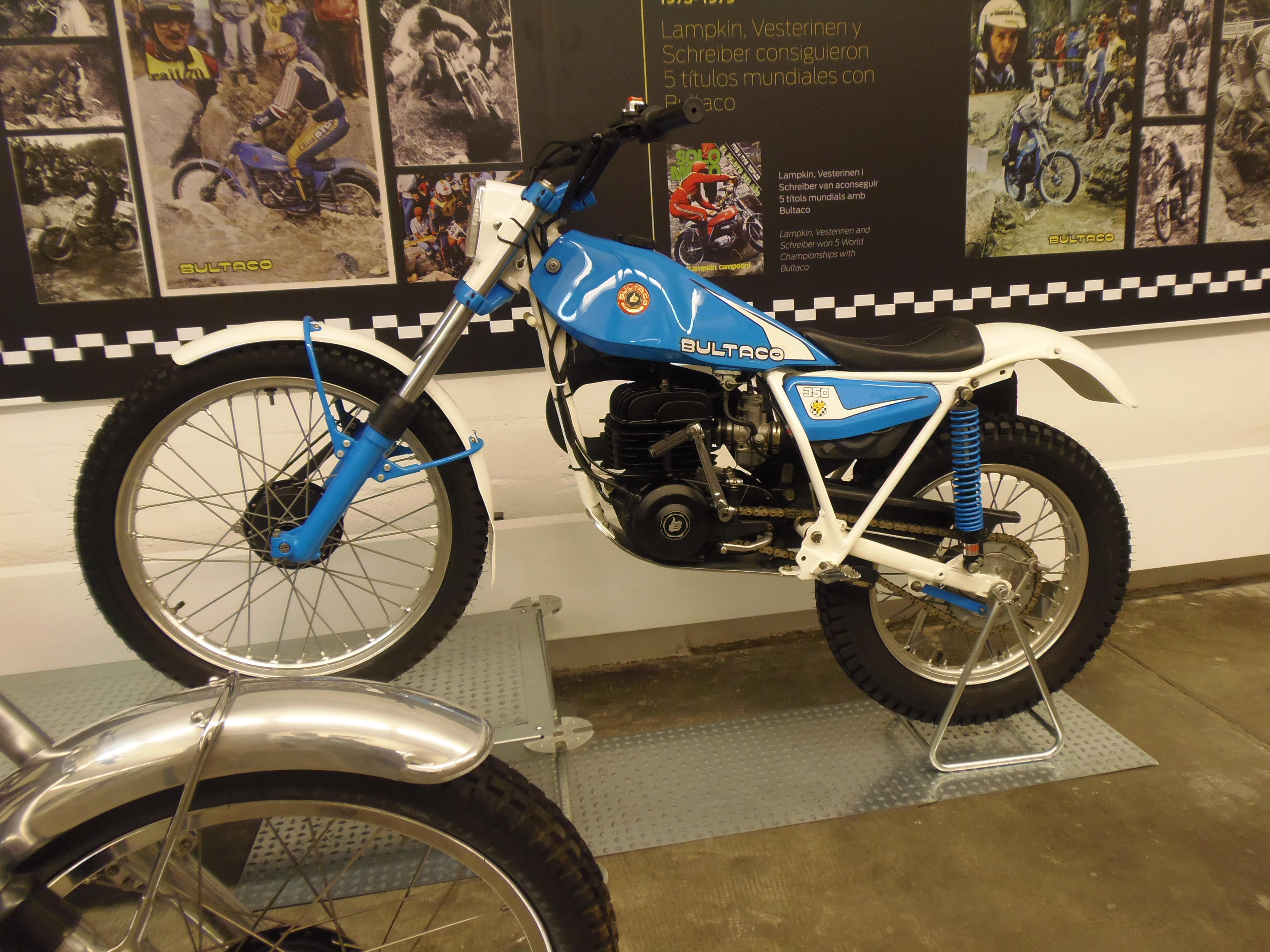 Bultaco Sherpa T Model 199B, 340 cc, 1981. The last Sherpa T as well as the last model made by Bultaco prior to their closing down.